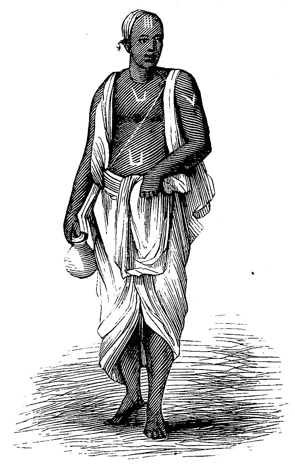 Vaishnava Brahmin. The illustration represents a Vaishnava Brahmin, or one who belongs to the sect especially worshipping the god Vishnu. This is known by the marks emblematic of this deity painted on his forehead, arms, and body. The sacred thread, the poita, is over his shoulder, and in his hand he carries his brass water-vessel.